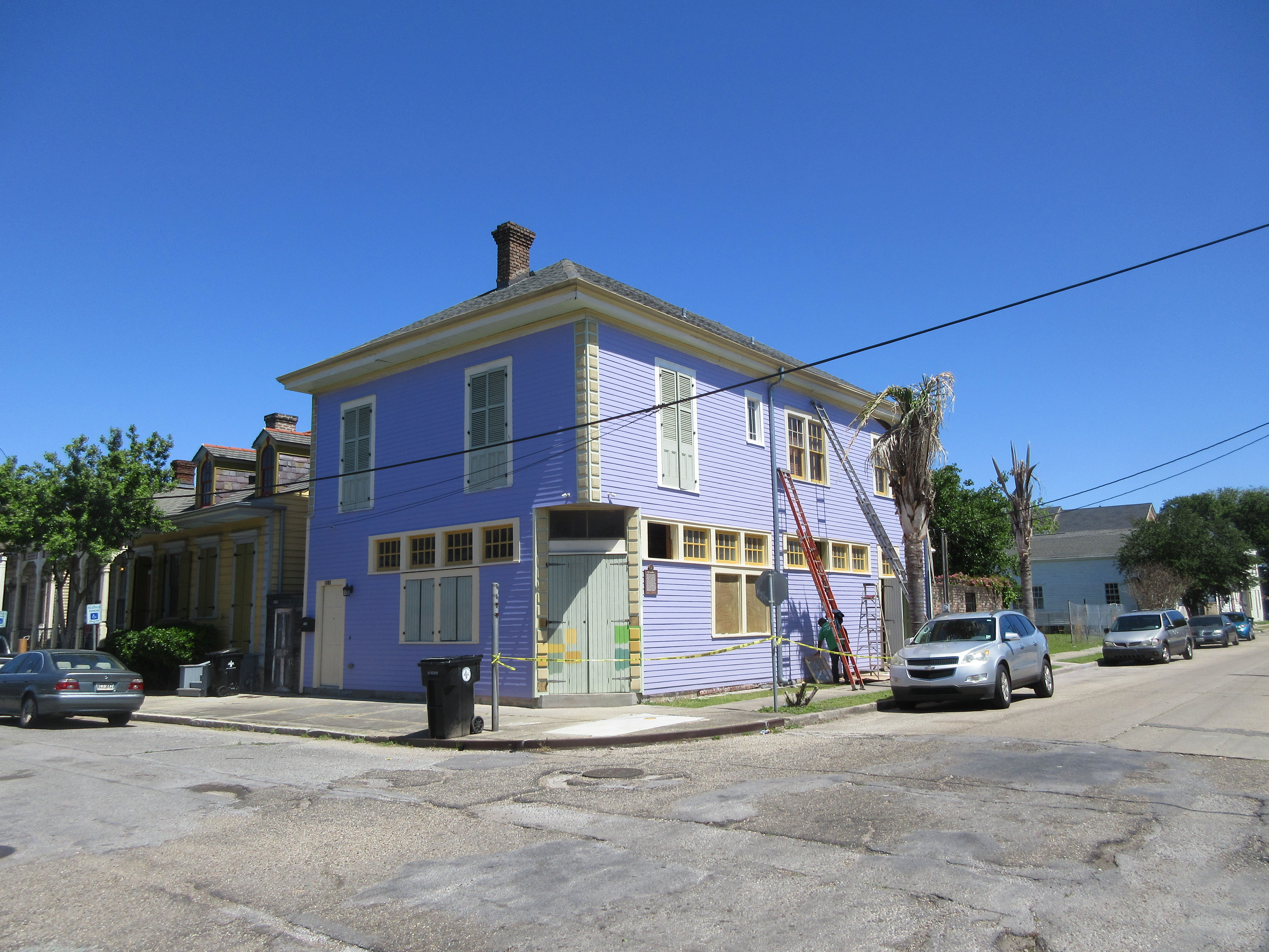 Old Treme section of New Orleans. Former Alphonse Picou residence & shop building.